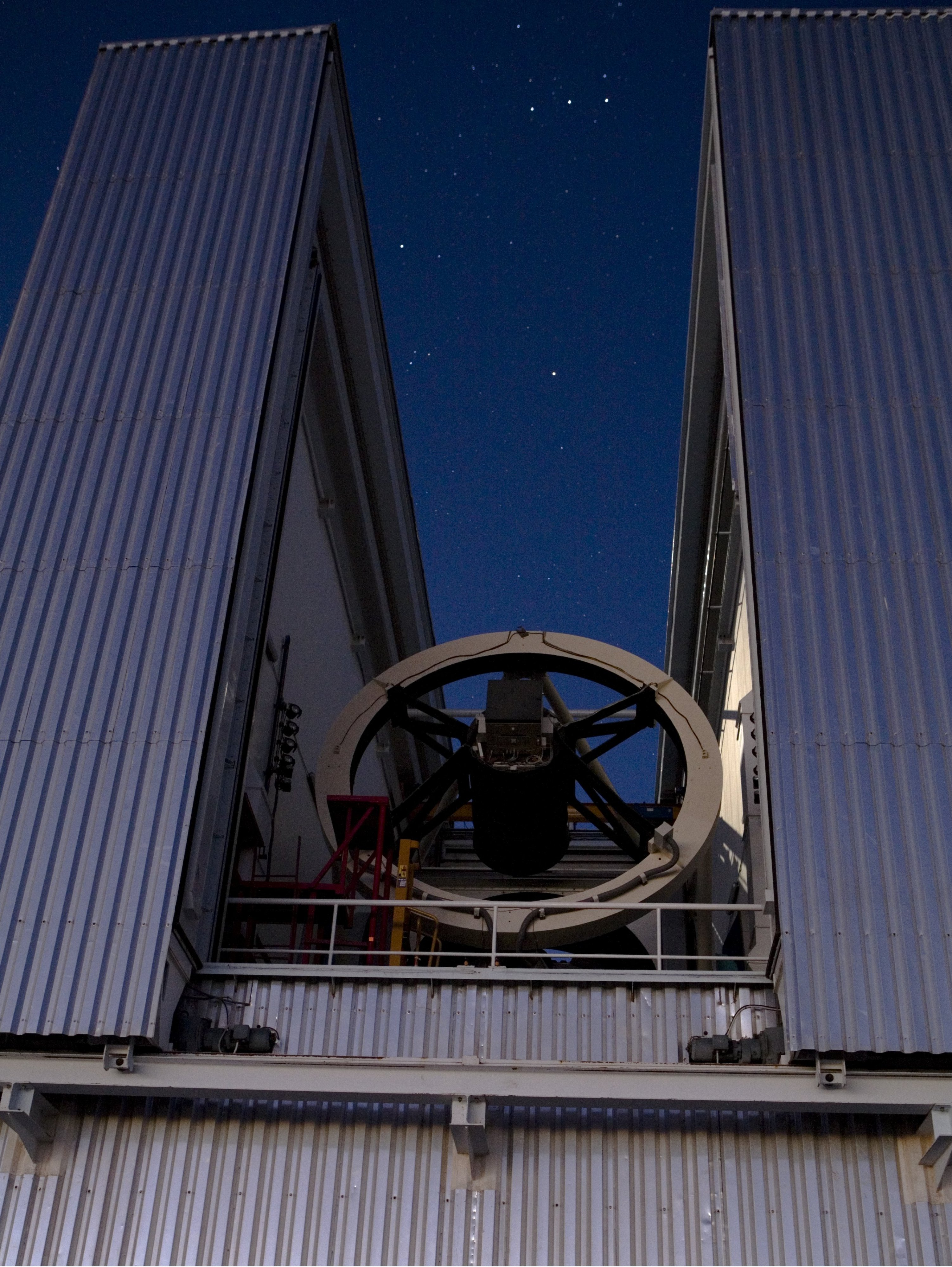 ESO's New Technology Telescope at La Silla is unique in that it can observe very low on the horizon. The telescope is not housed in a traditional dome with a slot in the roof to look at the sky, but in an innovative enclosure design with a sliding roof and wall that open up to leave a view of the sky which goes all the way to the ground. The whole building then rotates with the telescope to track objects on the sky. Inside the building the telescope can swing up or down, and was built to be able to swing down far further than normal telescopes: the NTT can point at objects only 10 degrees above the horizon.